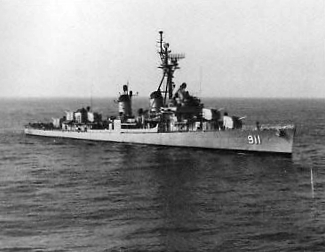 The South Korean destroyer Chumg Mu (DD-911), in 1982. This ship was originally the Fletcher-class destroyer USS Erben (DD-631), which had been in service with the U.S. Navy from 1943 to 1958. She was transferred to South Korea on 16 May 1963 until becoming a stationary training vessel in 1983.